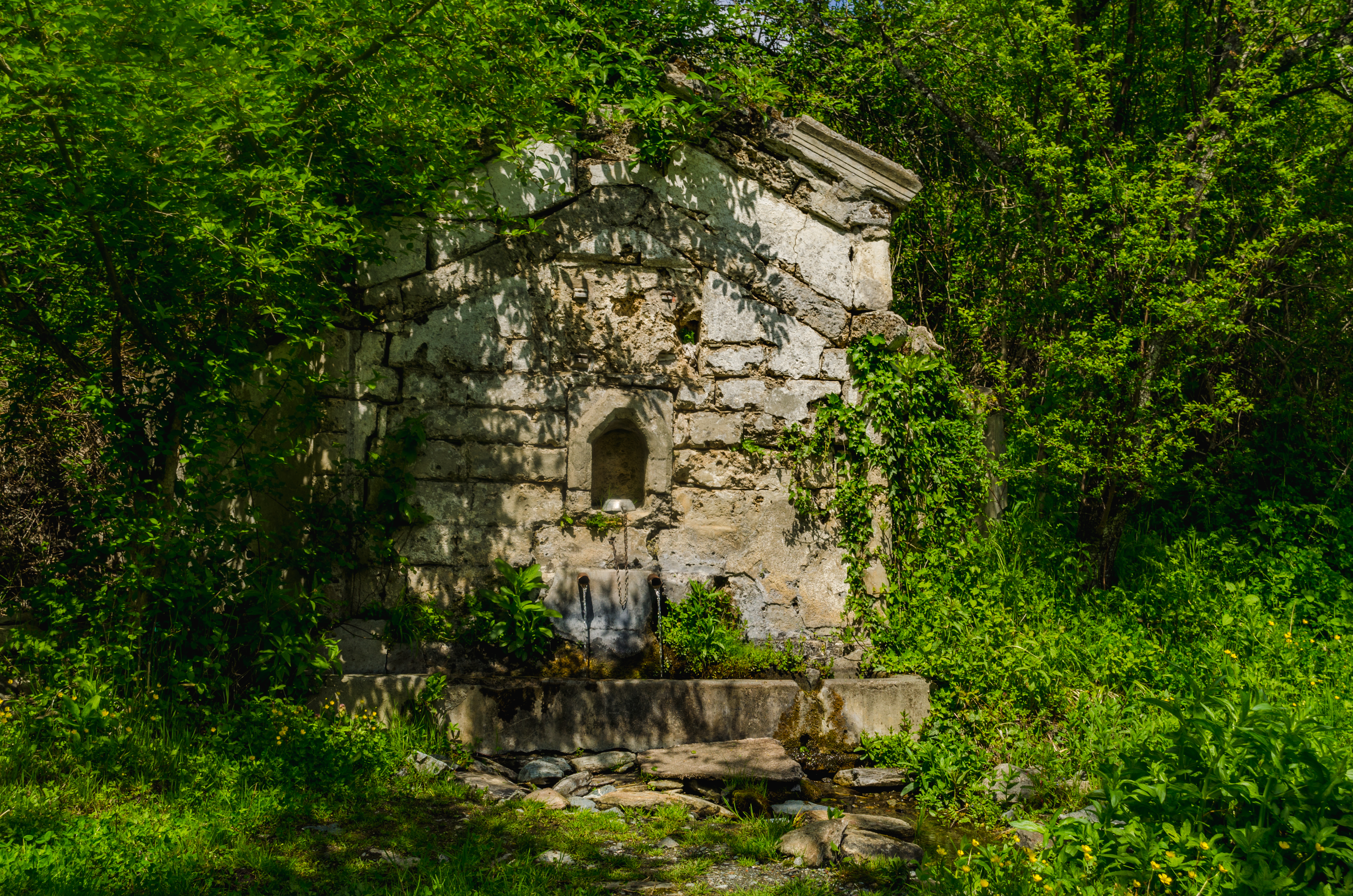 Old village pump in the village Konsko